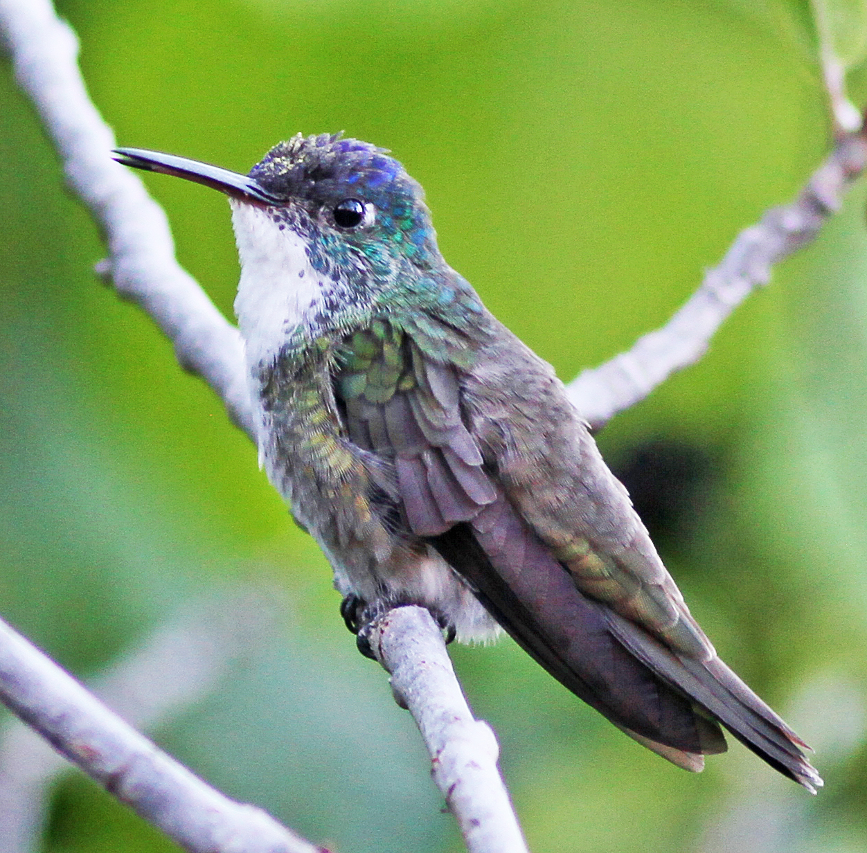 Taken at Lake Atitlan